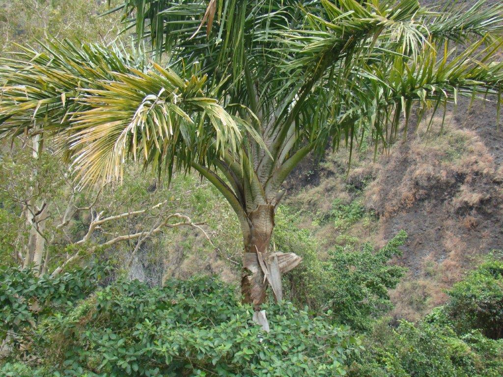 A mature specimen of Metroxylon sagu from Papua New Guinea